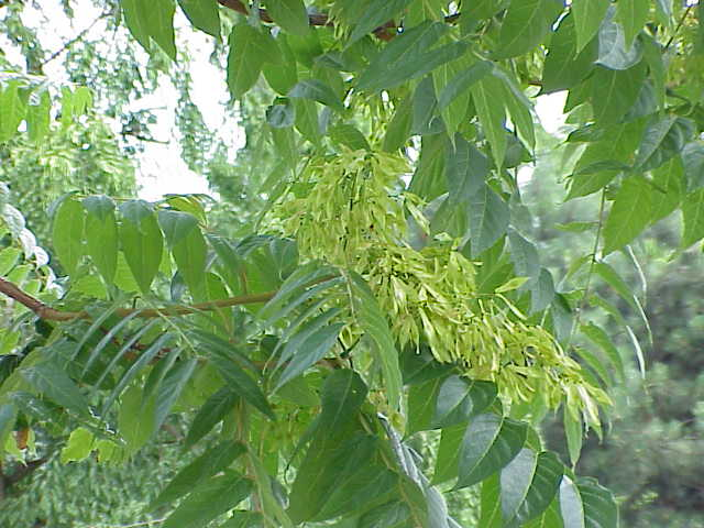 Species: Ailanthus altissima Family: Simaroubaceae Image No. 3